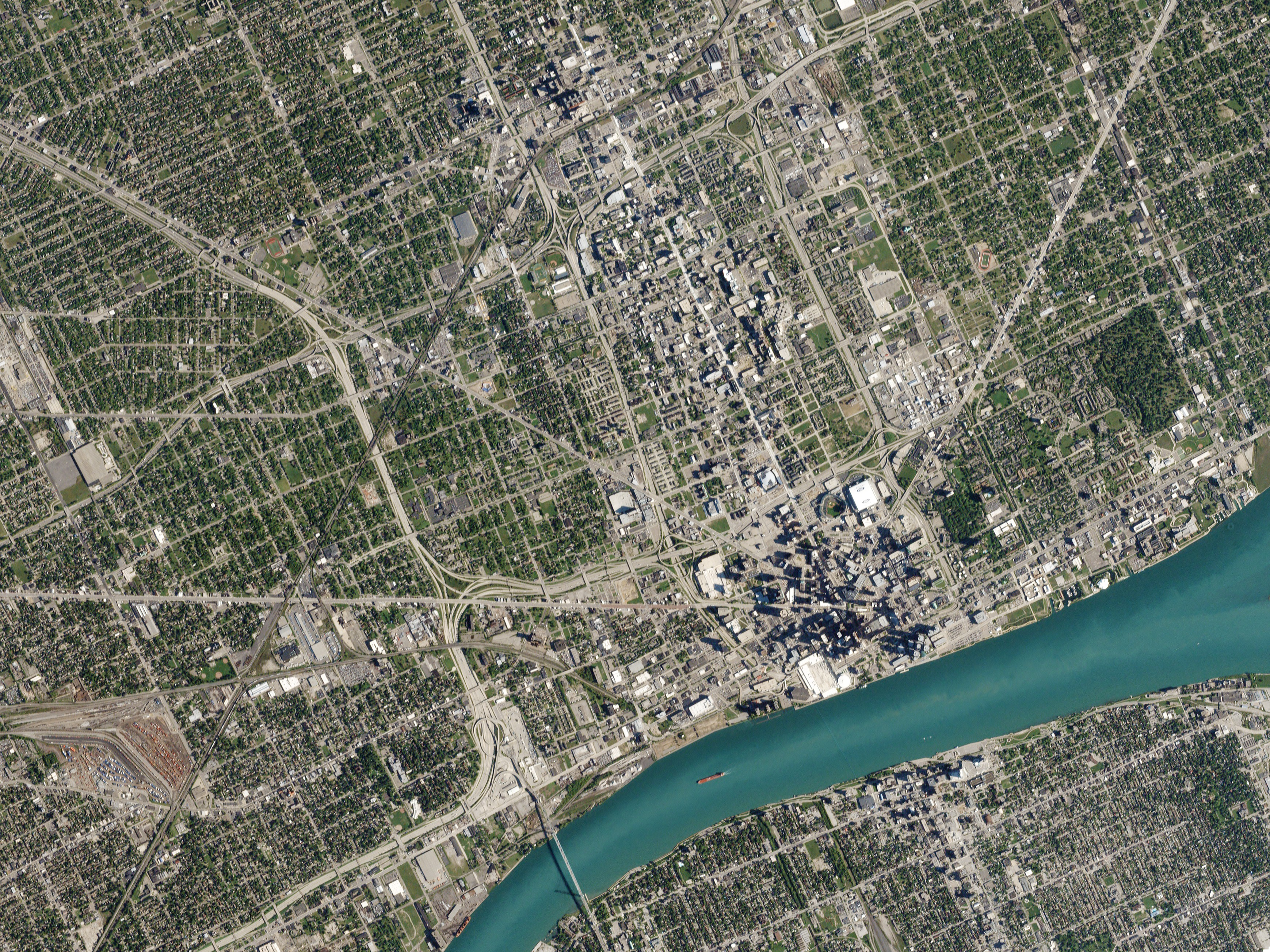 Detroit Michigan, USA August 22, 2016 On early Monday morning, August 22, a lone barge cruised down the historic Detroit River. The scene reveals only a portion of the sprawling 140+ square mile Motor City, including the downtown skyscrapers, Ford Field, and Comerica Park.